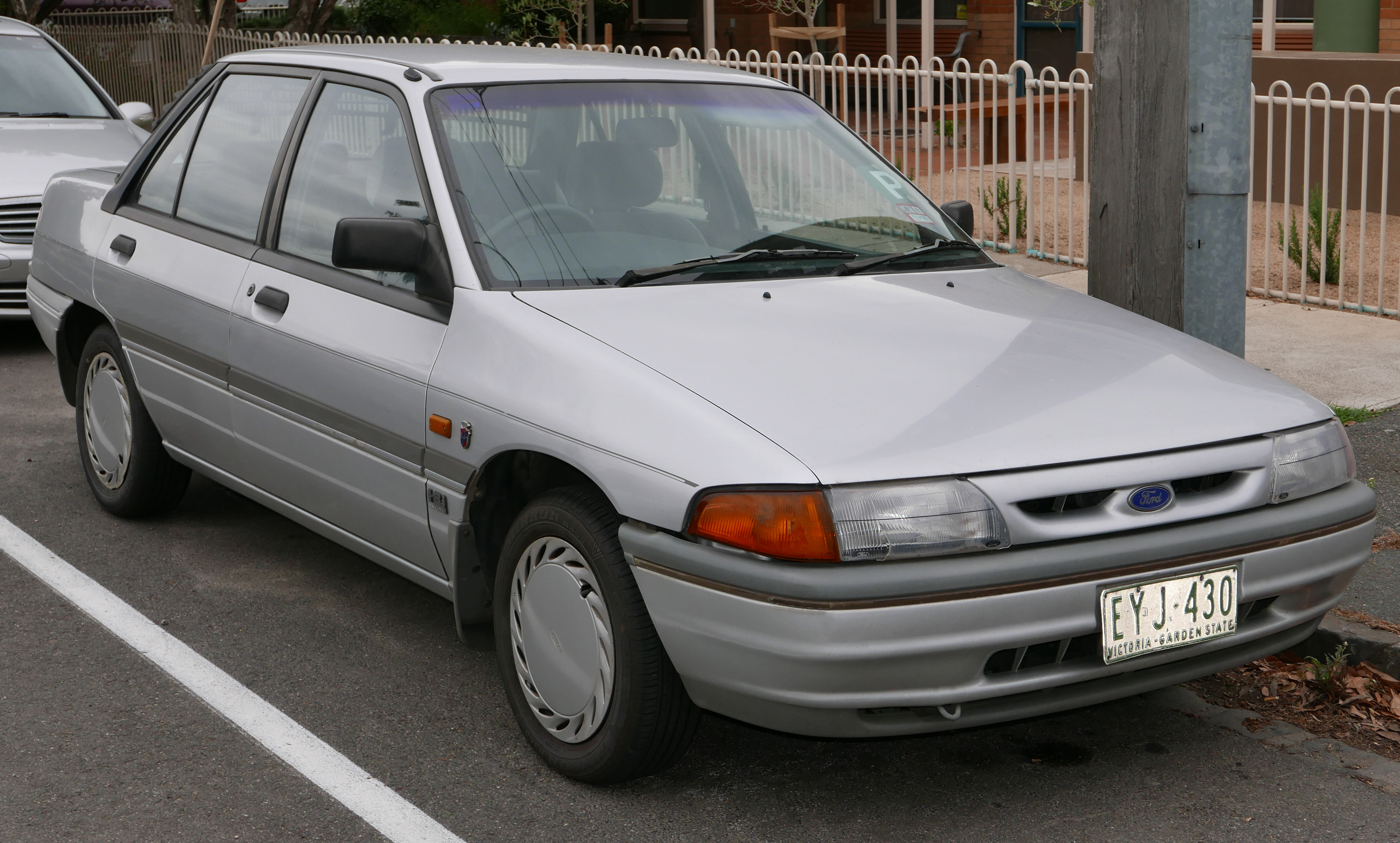 1992 Ford Laser (KH) Ghia sedan. Photographed in Coburg, Victoria, Australia. Vehicle registration enquiry results Jurisdiction Victoria Registration EYJ430 Chassis code 6FPAAAUK4DND25262 Engine code BP535989 Compliance date 1992-07 Year of manufacture 1992